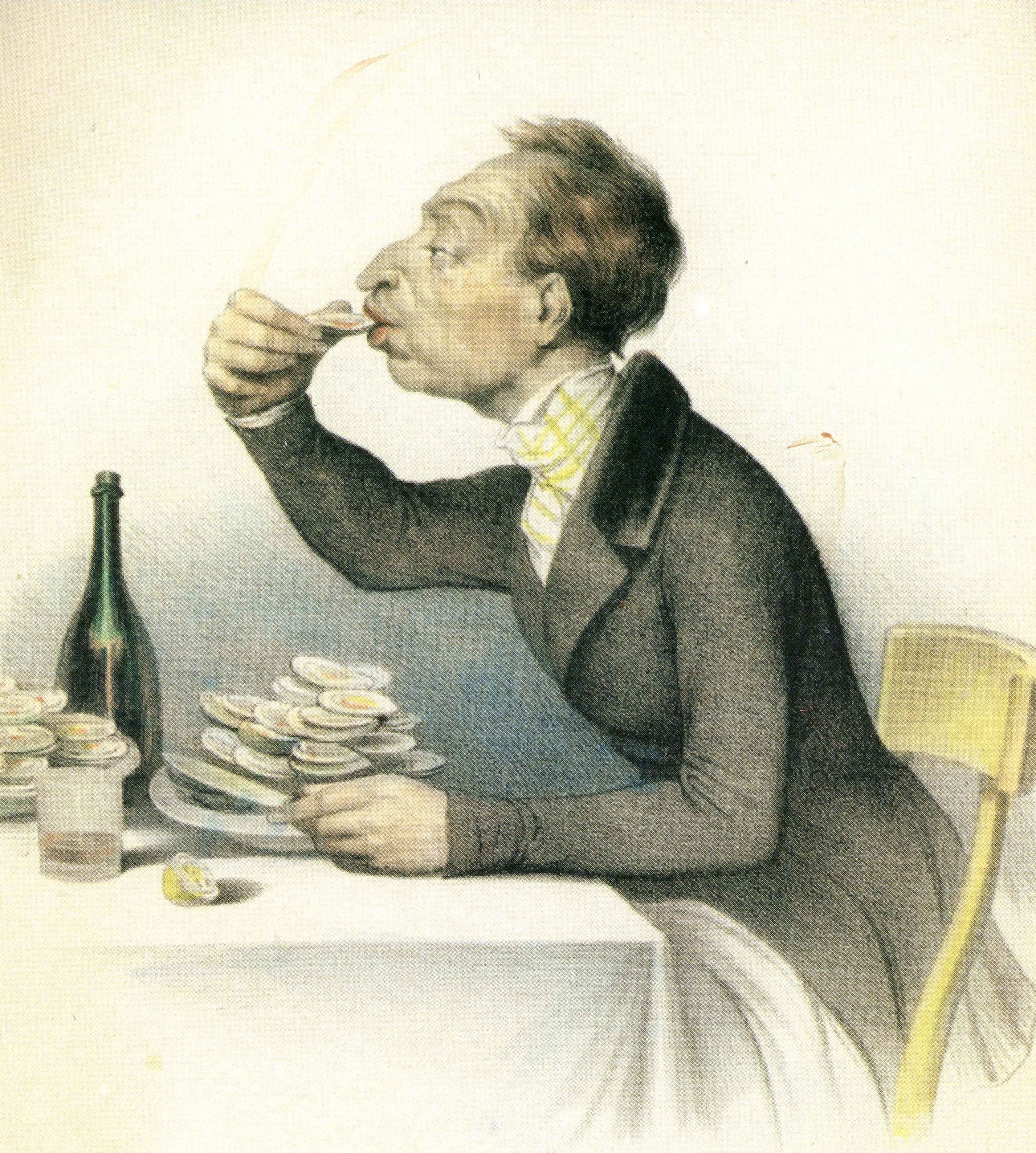 Der Austernesser. Lithografie von Anstett von Poluda um 1840-1850